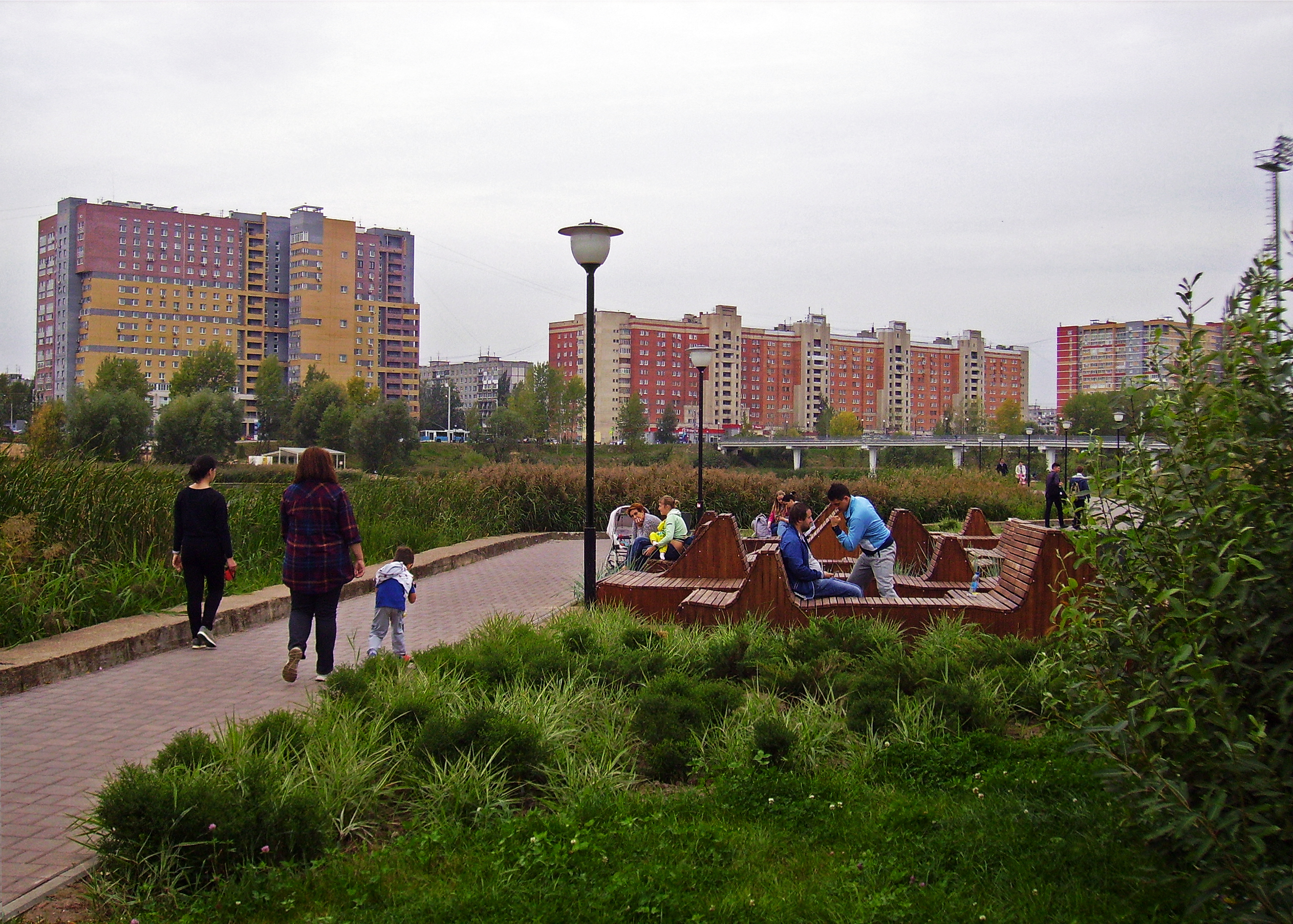 Нижний Новгород. Прогулочная зона у Мещерского озера